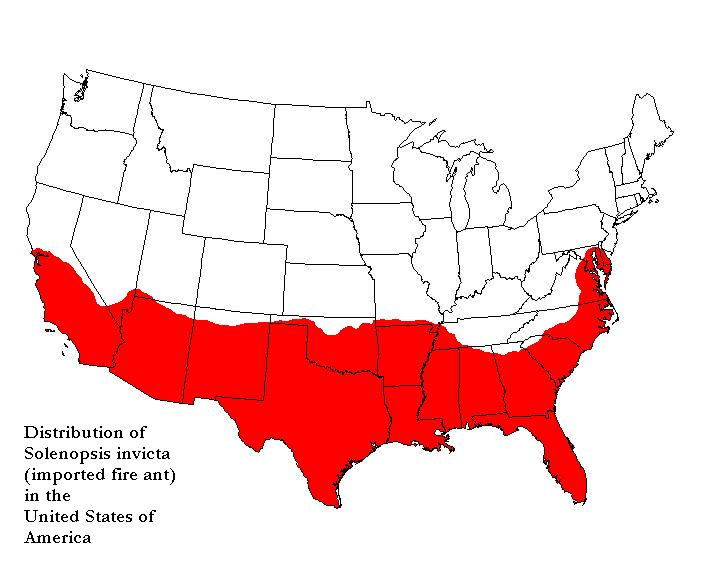 Potential future distribution of the red imported fire ant in the United states of America.